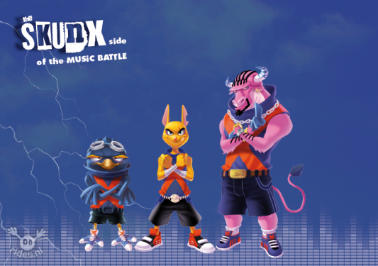 Skunx